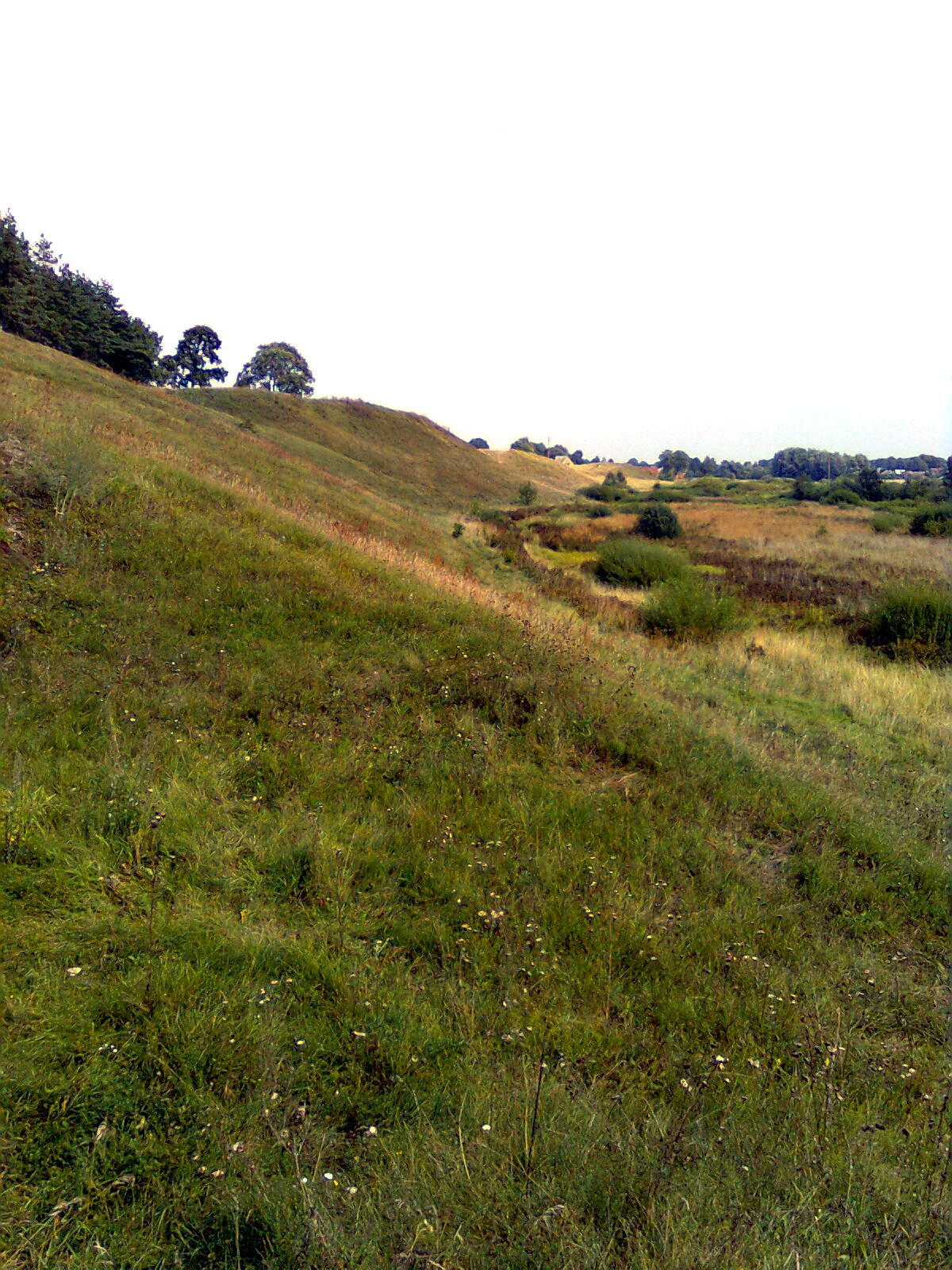 Esker in Žagarė, Lithuania